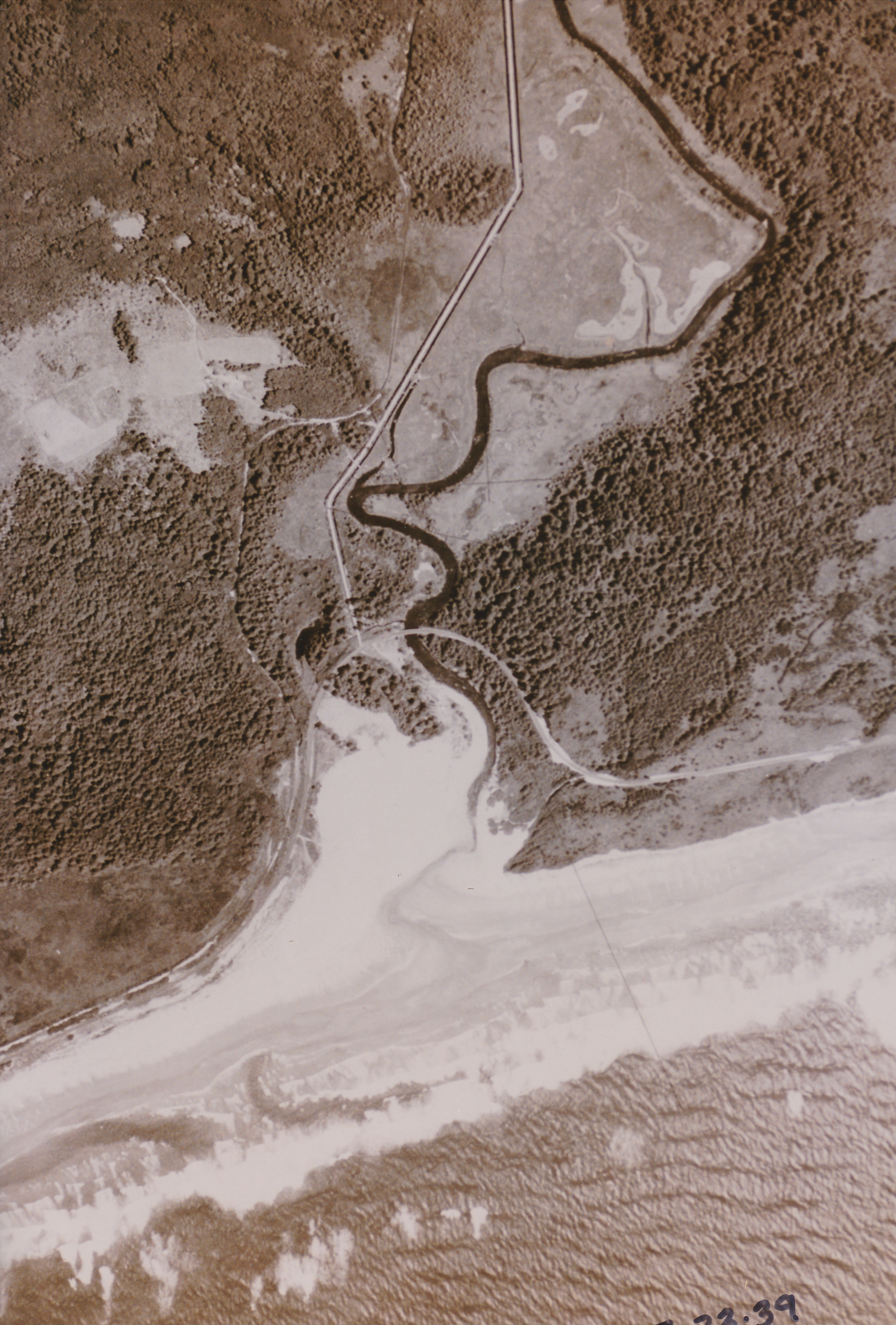 Aerial photograph of Ona Beach in 1939